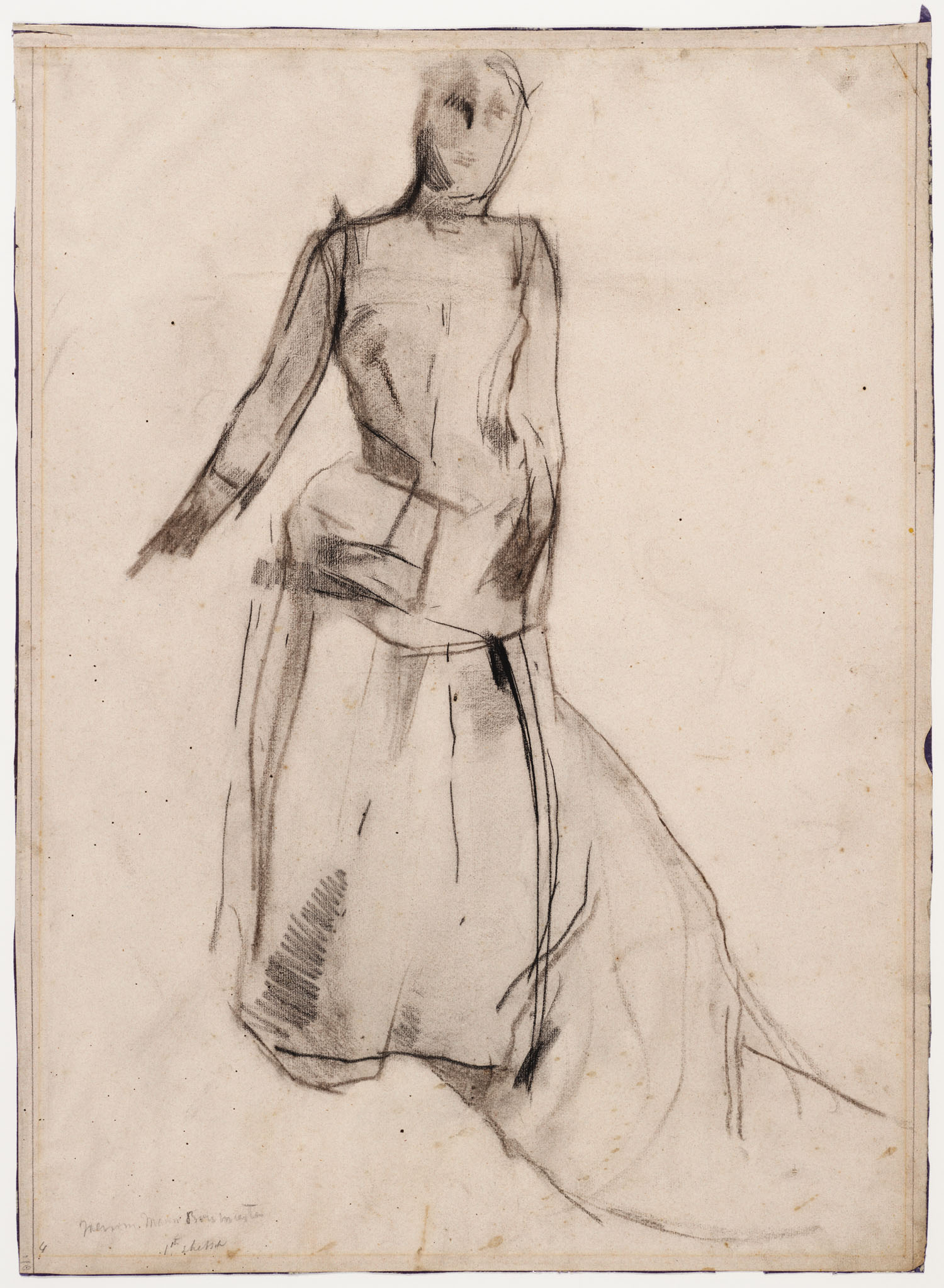 Voorstudie portret Theo Bouwmeester